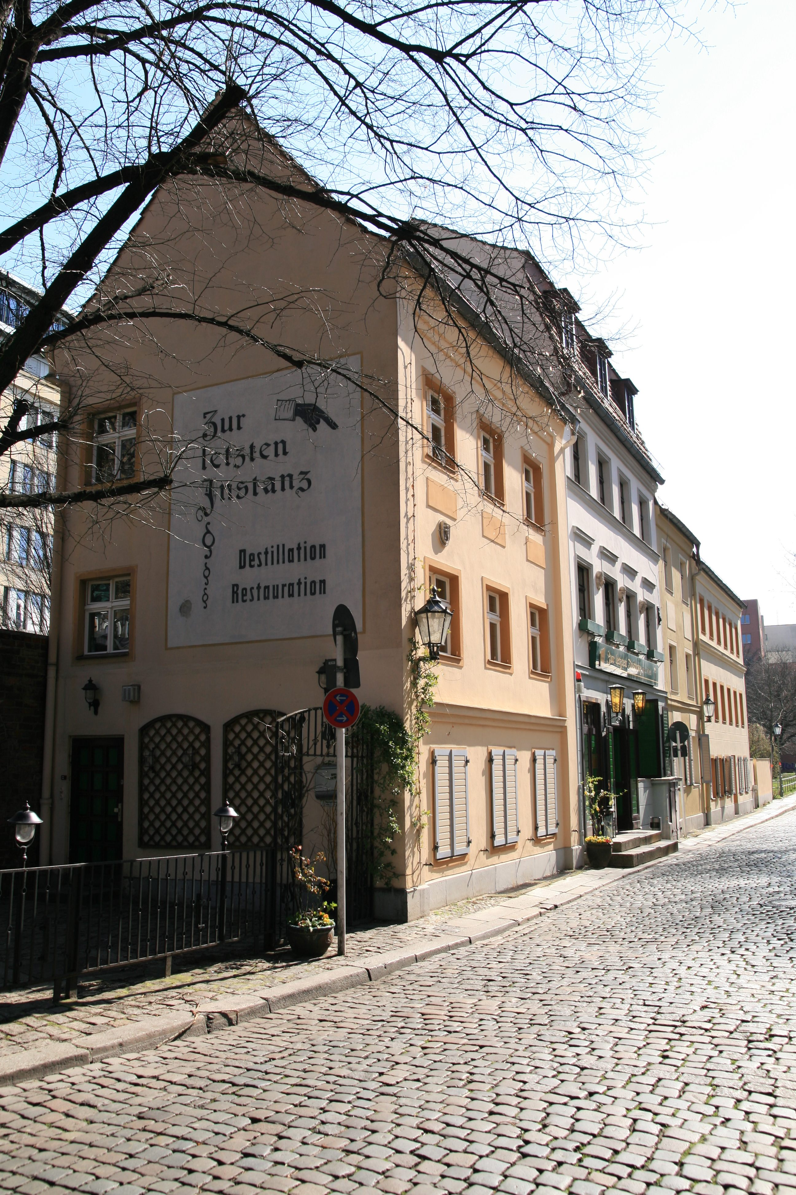 Located in Waisenstrasse 14-16, Zur Letzten Instanz is said to be the oldest restaurant in Berlin (the restaurant states a founding date of 1621 on their website). The building is connected to the old City Wall , seen to its left. Zur Letzten Instanz has supposedly been frequented by everybody from Napoleon to Beethoven, and prisoners used to stop off here for one last beer before going to jail - which is probably the reason for its name - "The last chance".